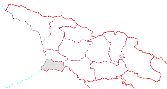 Location of Ajaria within the map of Georgia.